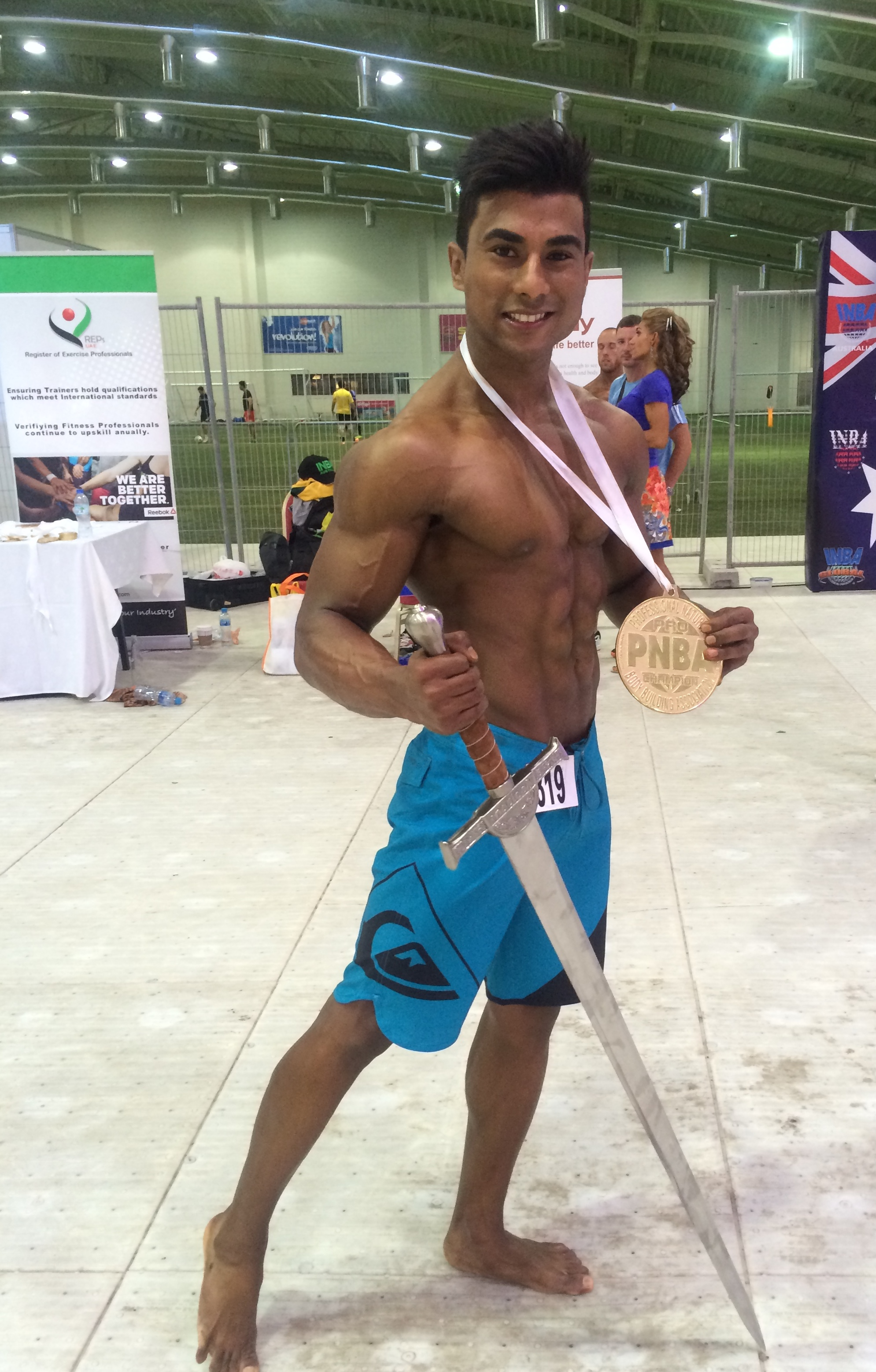 PNBA Mr World Men's Physique Champion, 2015